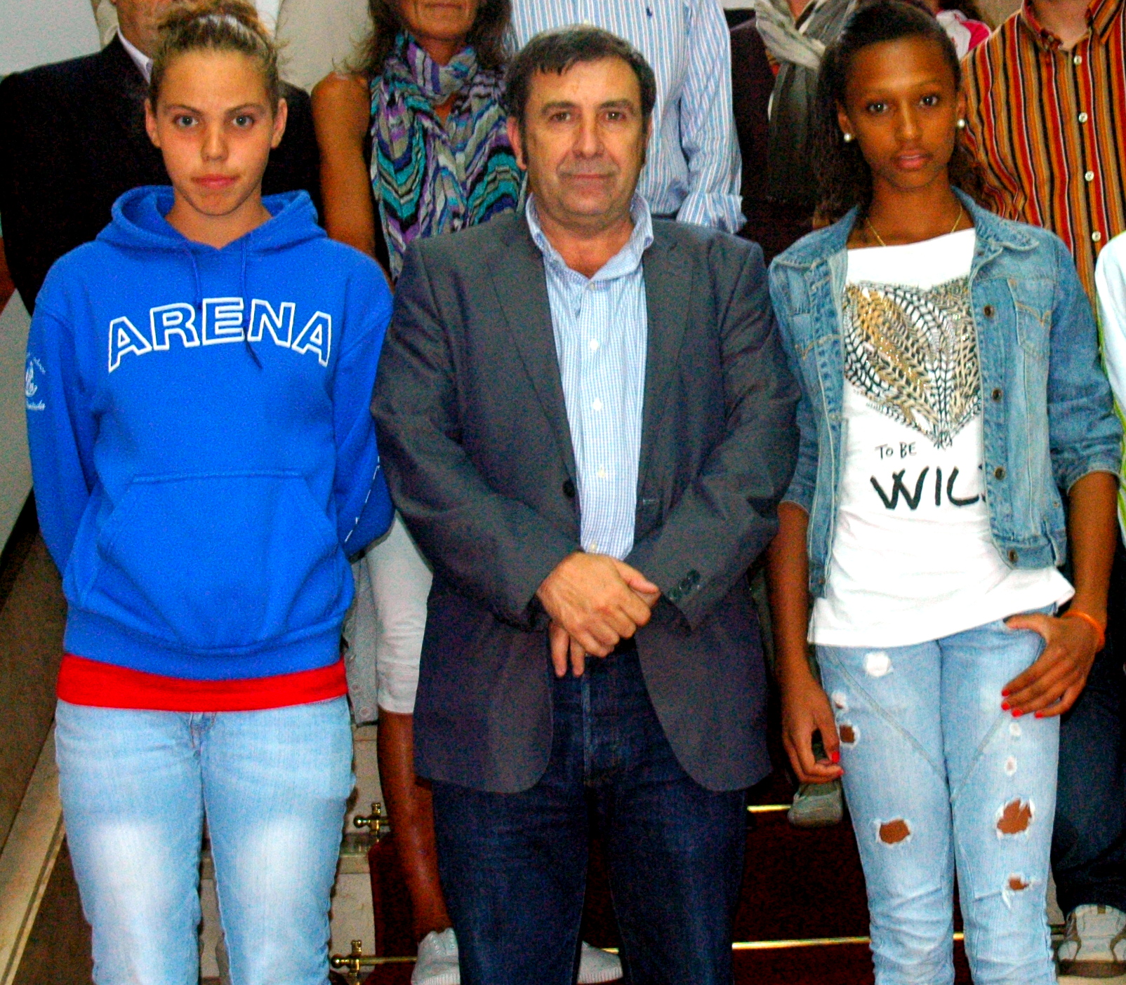 María Vilas, Ruiz Rivas and Ana Peleteiro in 2011